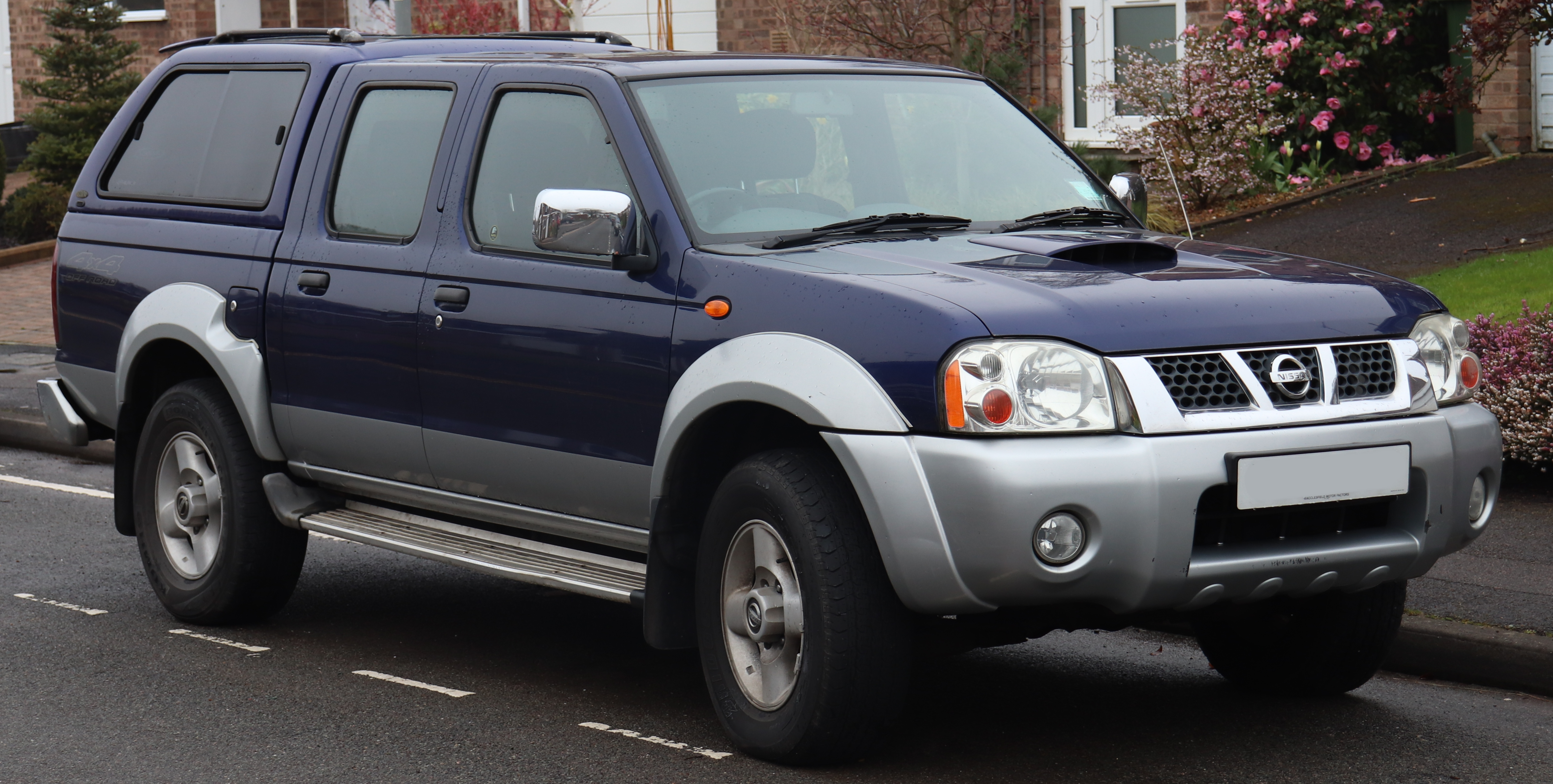 2004 Nissan Navara Diesel 4X4 2.5 Front Taken in Warwick